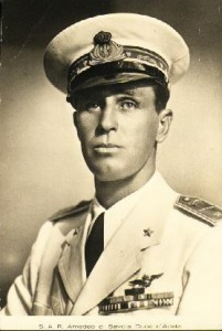 Duke Amadeo Aosta